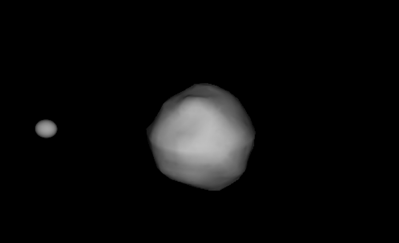 Simulated image of the Didymos system, derived from photometric lightcurve and radar data. The primary body is about 780 meters in diameter and the moonlet is approximately 160 meters in size. They are separated by just over a kilometer. The primary body rotates once every 2.26 hours while the tidally locked moonlet revolves about the primary once every 11.9 hours. Almost one sixth of the known near-Earth asteroid (NEA) population are binary or multiple-body systems.